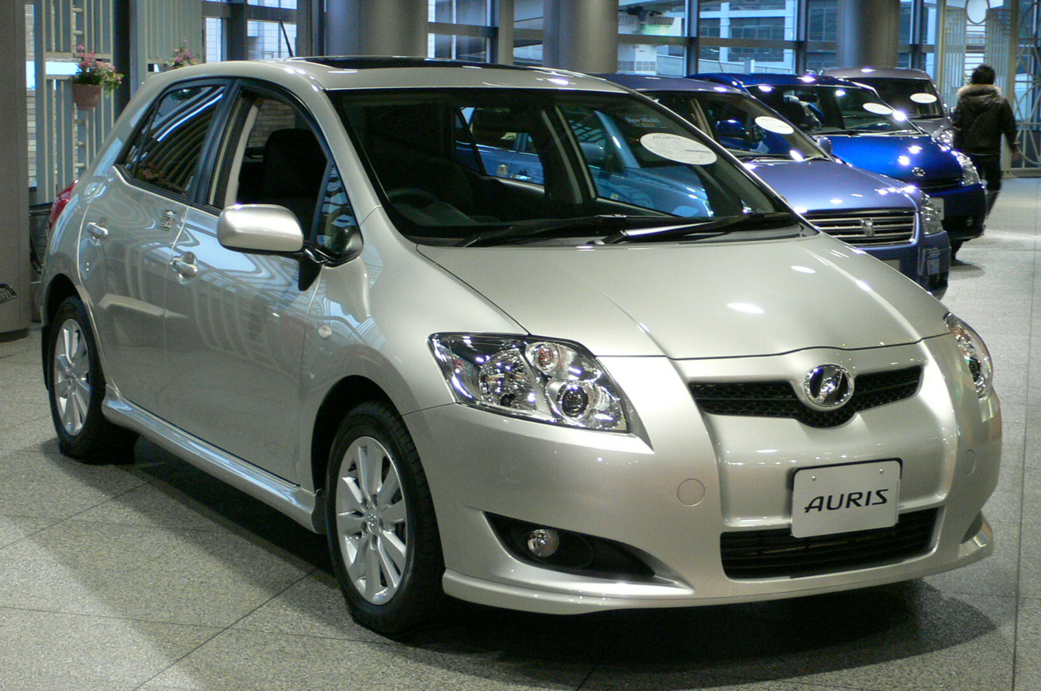 Toyota_Auris(2006) taken in Showroom of Toyota-AMLUX